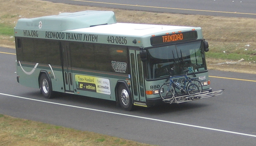 Redwood Transit System Gillig hybrid 880 on US 101 approaching Herrick Avenue in 2007.